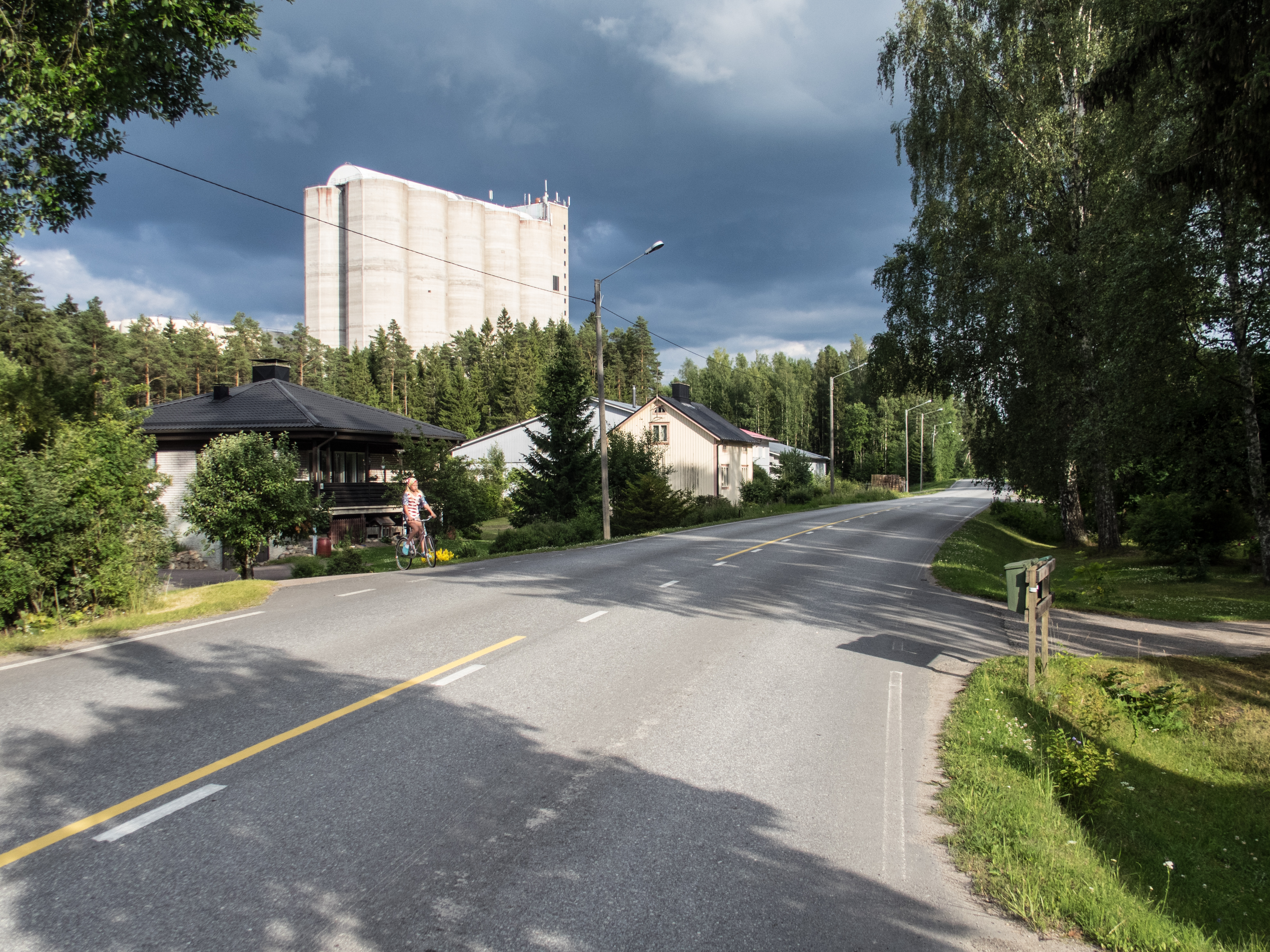 Viljava Oy's grain silos dominate the scenery in Riste village, Kokemäki, Finland.